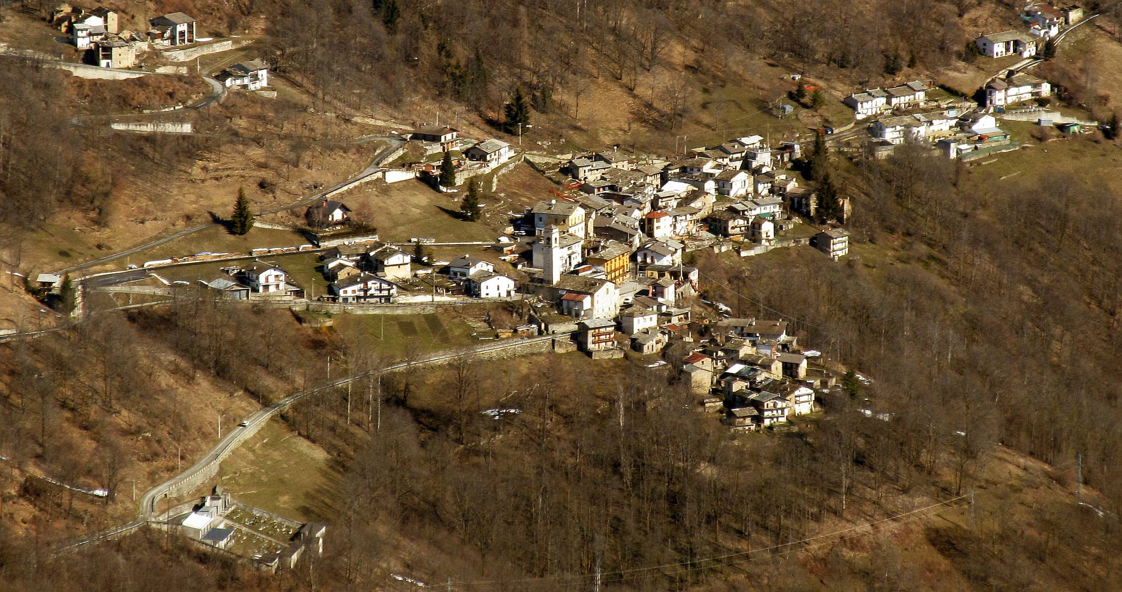 Oncino (CN, Italy): panorama from Testa di Cervetto